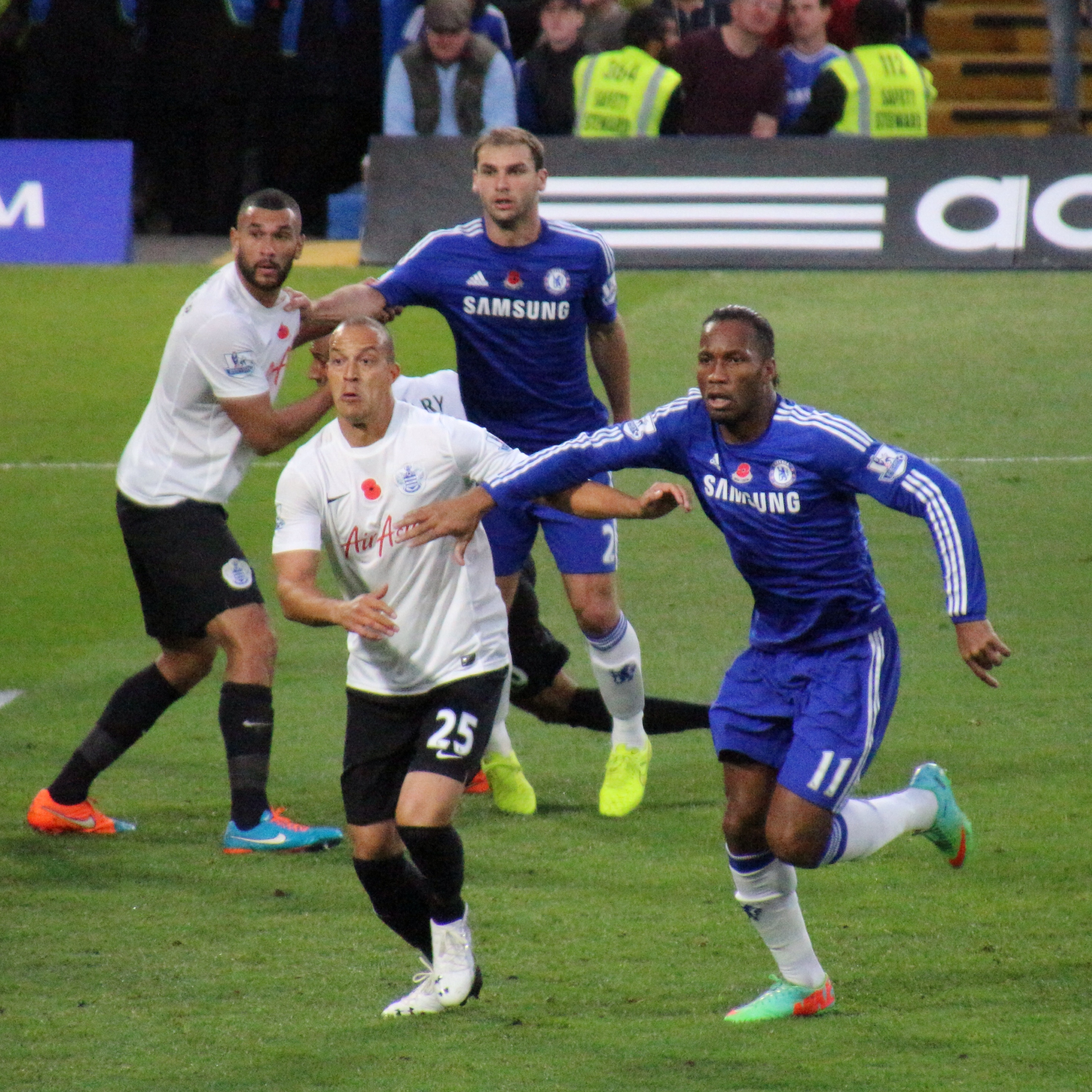 Premier League match between Chelsea and Queens Park Rangers at Stamford Bridge on 1 November 2014.